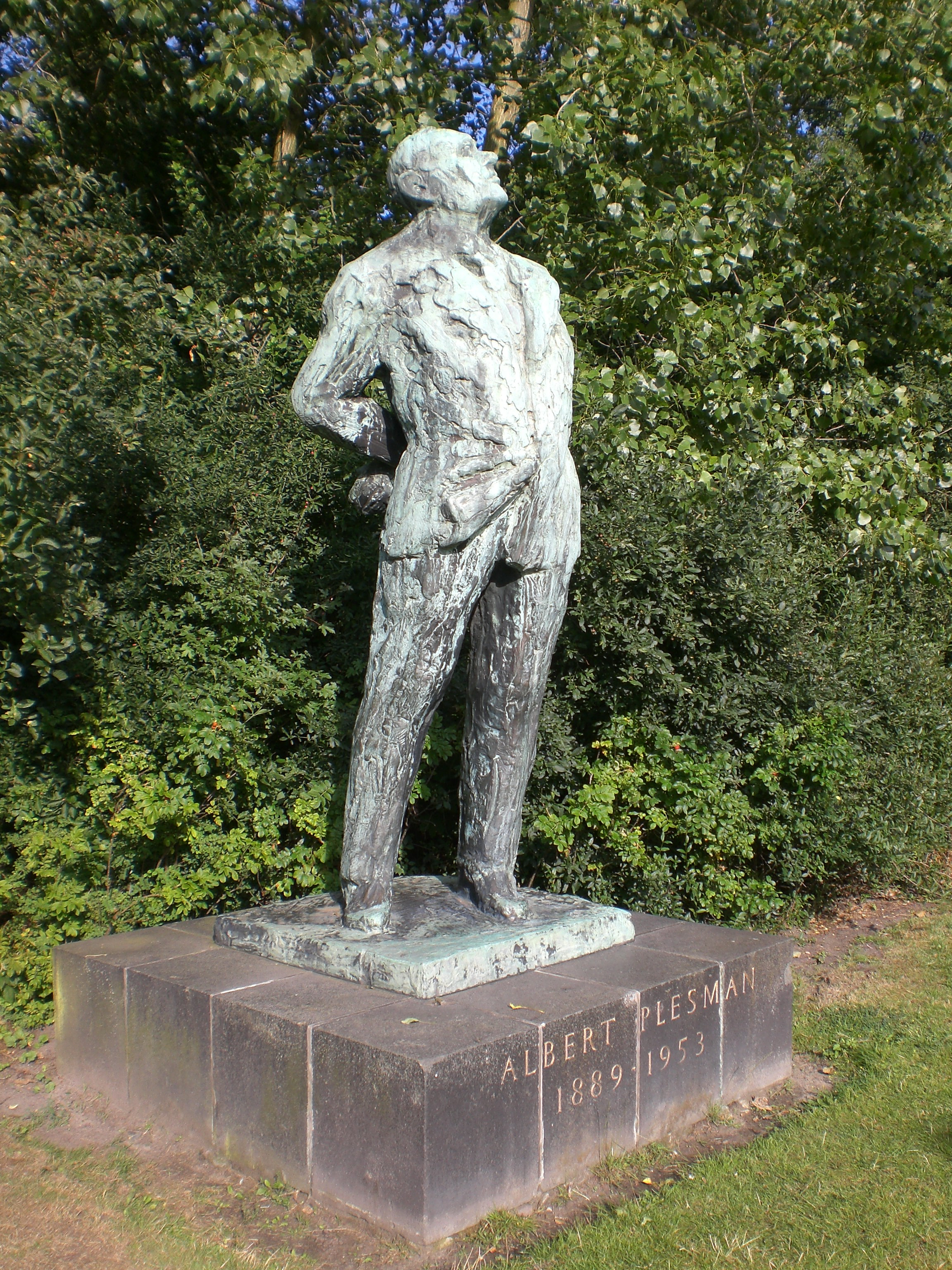 Statue of Albert Plesman in The Hague, made by Mari Andriessen in 1958